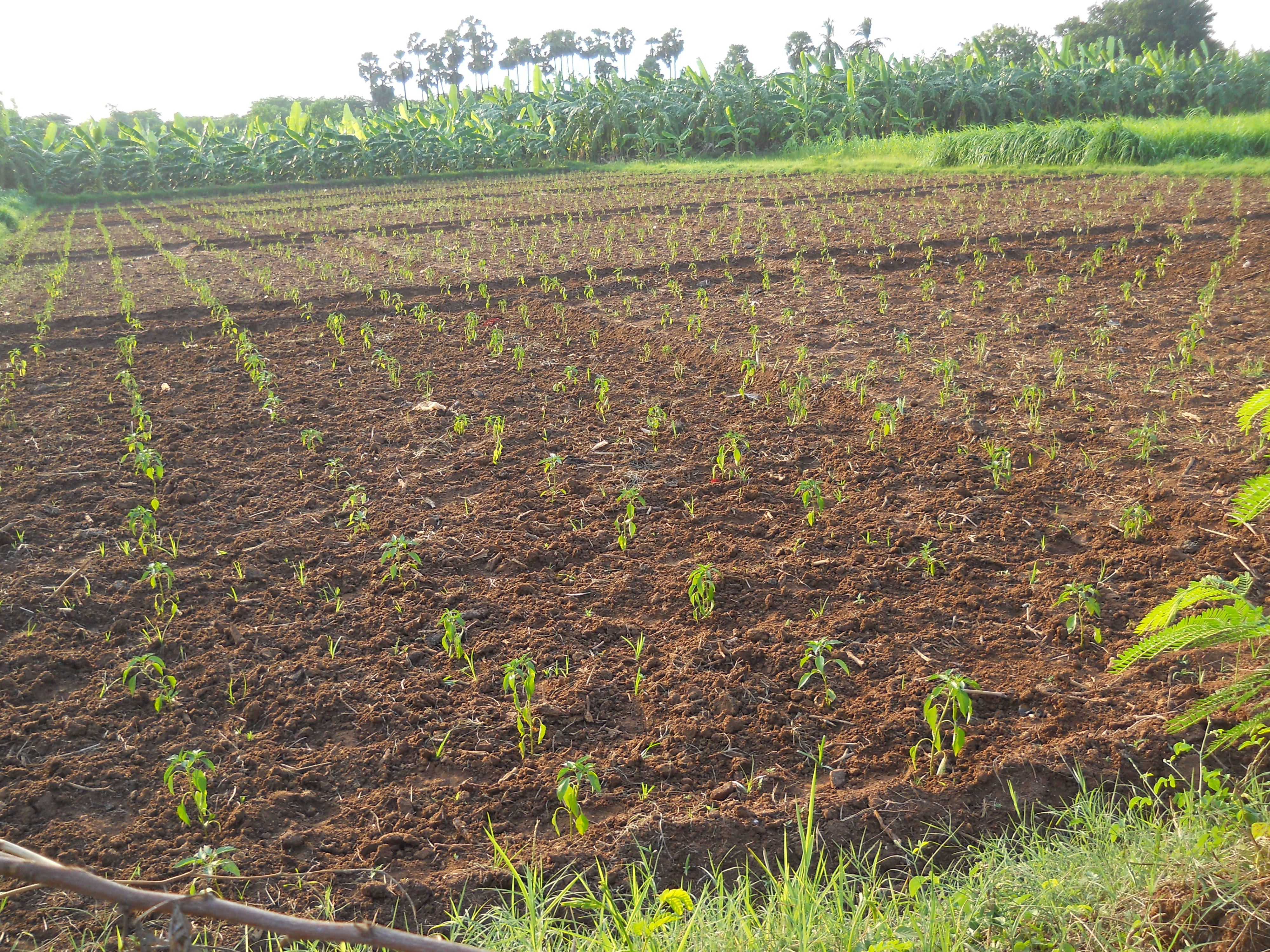 Mirch Transplanting at Vinjamur, Nellore (dt), A.P, India.